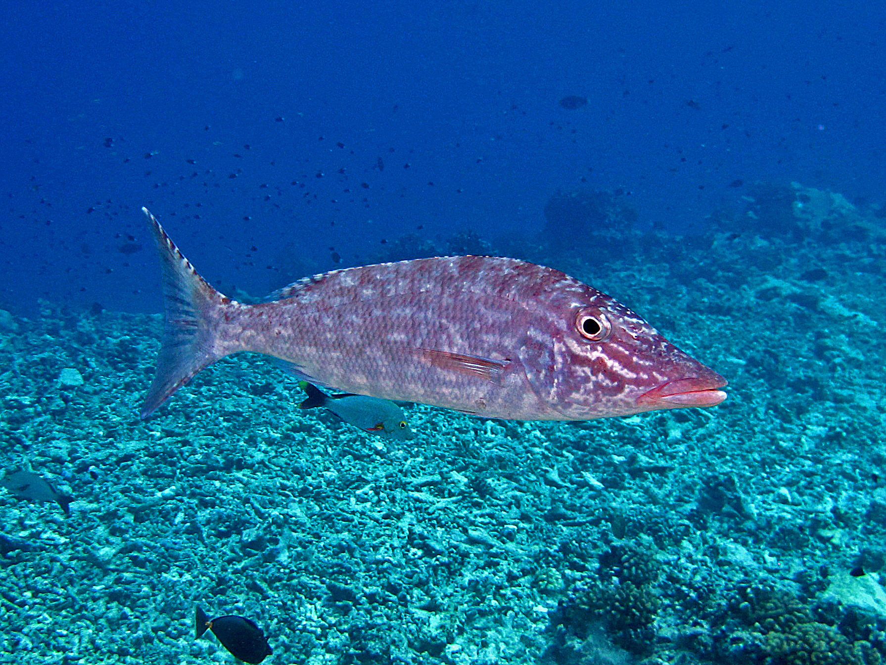 Lethrinus olivaceus. Rangiroa, Polynesia